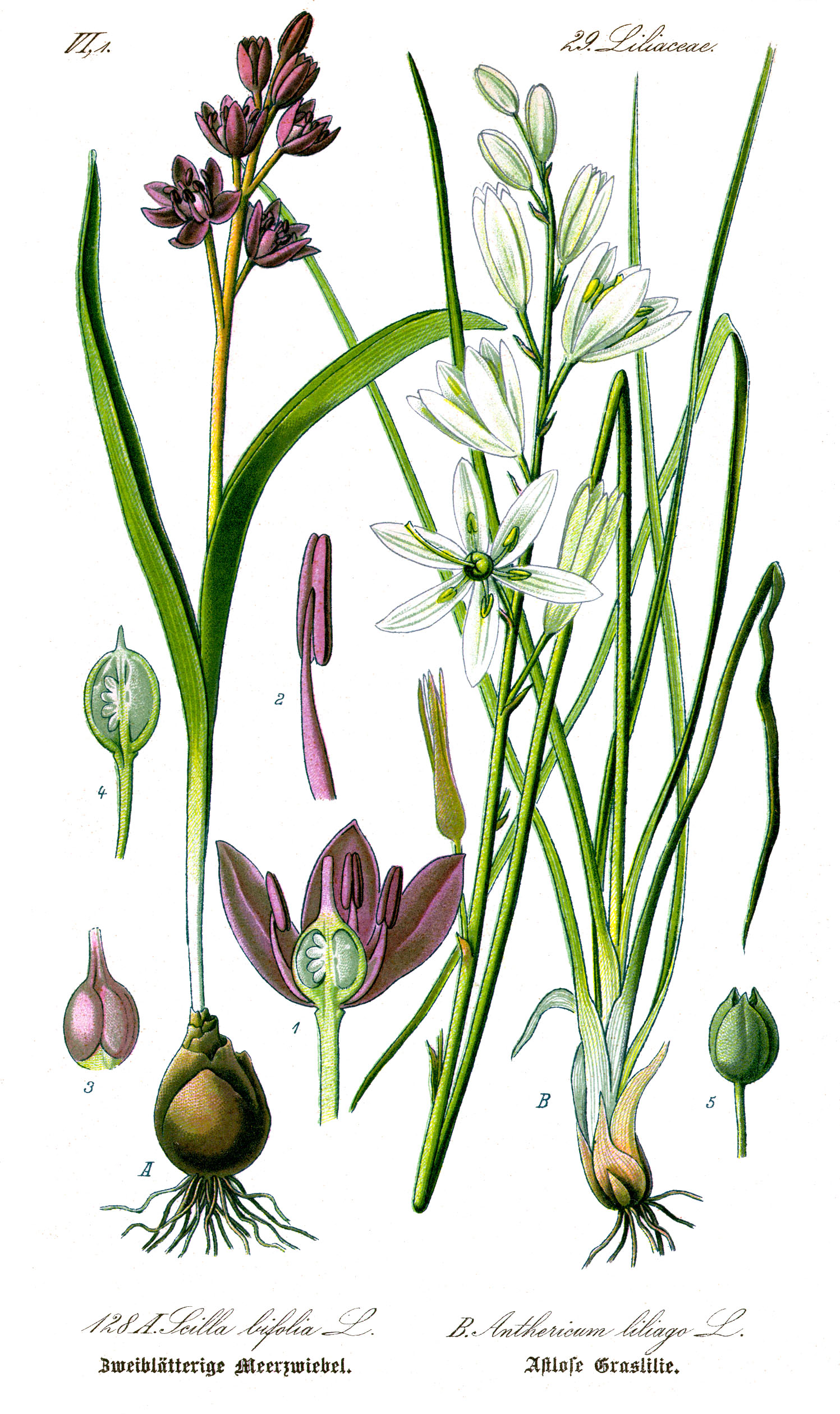 Scilla bifolia, Family: Hyacinthaceae